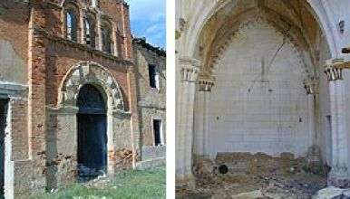 Main gate and interior view of the Hospital de Santa María de las Tiendas (Lédigos de la Cueza) before being demolished in 2006.